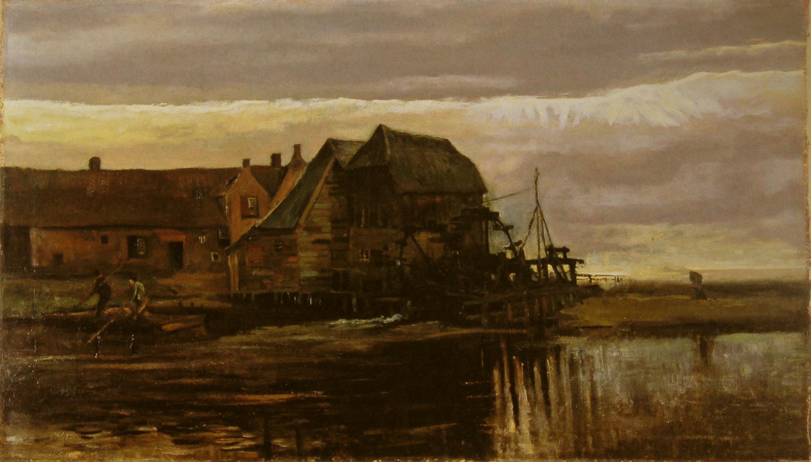 Image of a water-mill in Gennep, The Netherlands